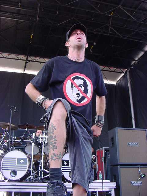 Randy Blythe of Lamb of God at Ozzfest, Jones Beach, New York July 14, 2004 Lamb Of God 2